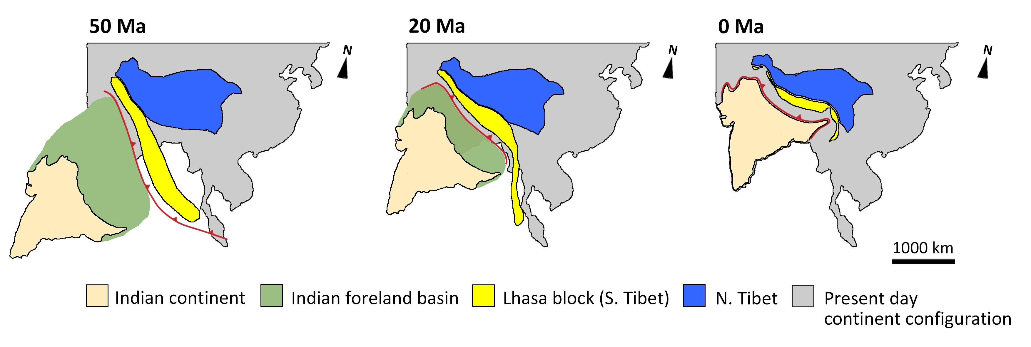 Modified after Royden, Burchfiel & van der Hilst, 2008.